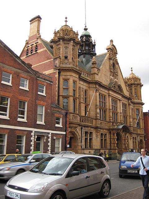 Town Hall, Hereford In St. Owen's Street.